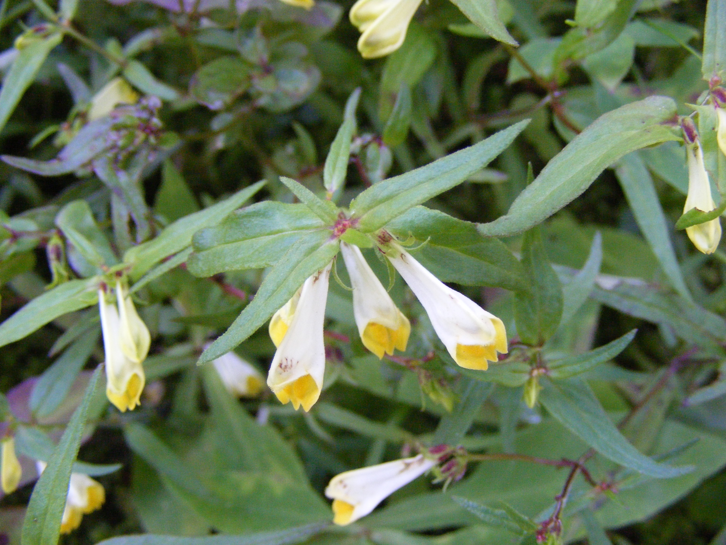 This photo shows Melampyrum pratense Flowers and leaves